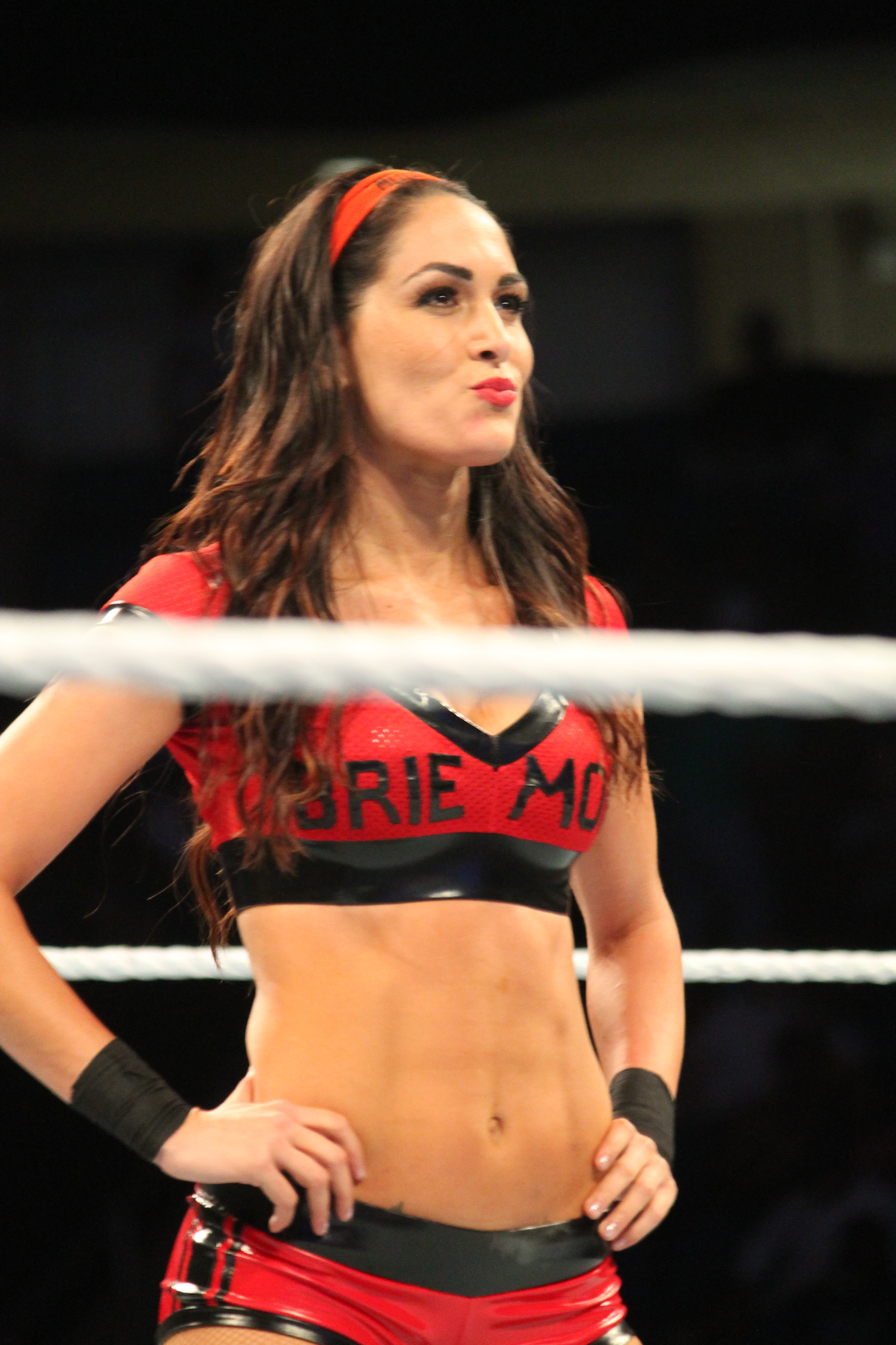 Brie Bella at a WWE Main Event television taping on September 16, 2014.